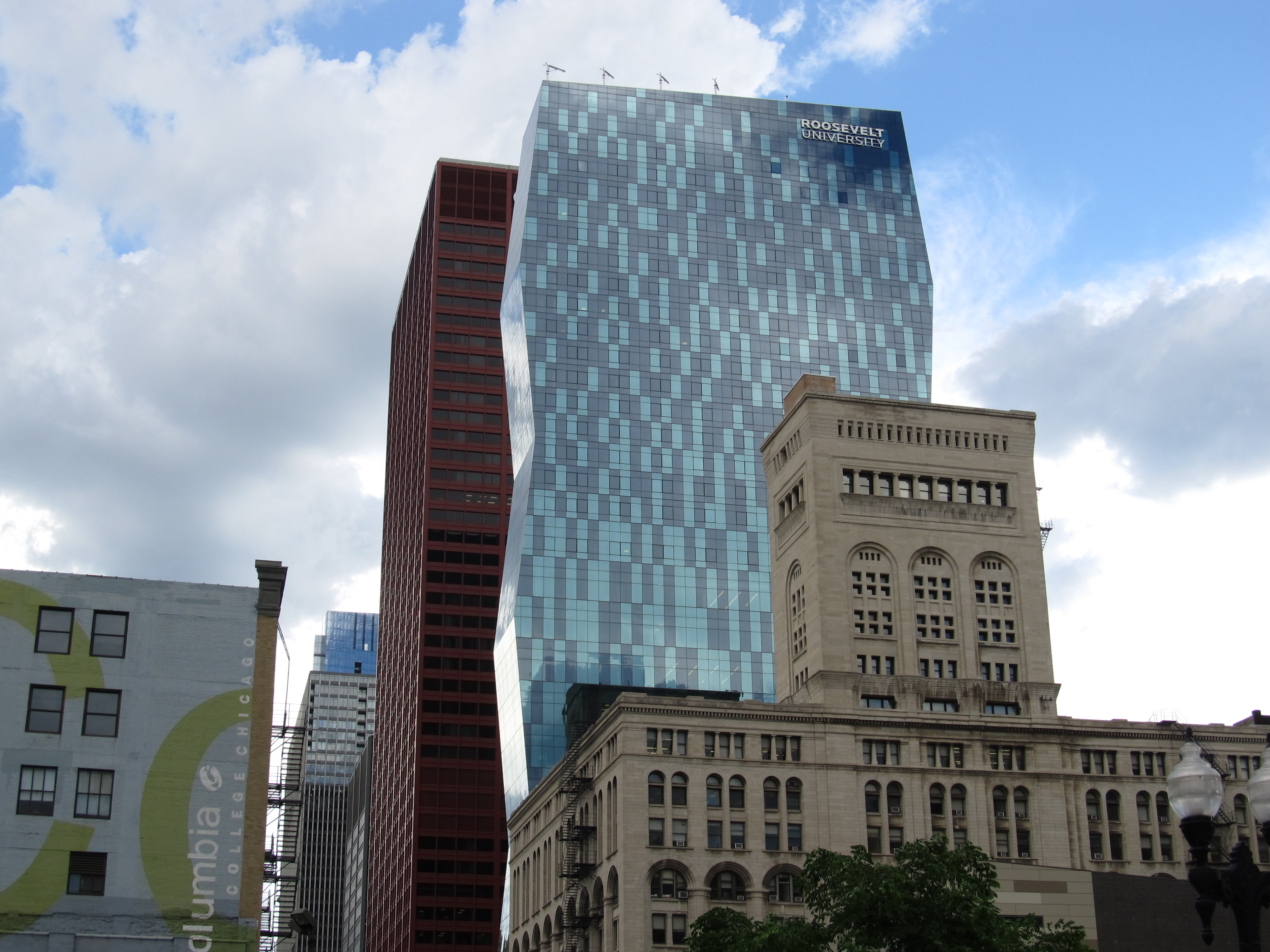 The Wabash Building houses Roosevelt University's downtown campus. The 32-story vertical campus, the Wabash Building, is the second-tallest higher-education building in the United States and the sixth tallest in the world. It serves as a multipurpose building: housing student services, classrooms, contemporary science labs, administrative offices, and student residences. Student residences are on the top floors (14-32), with a shared lounge overlooking Lake Michigan on each floor. The university held an open house in the summer of 2012, with classes beginning in the new addition during the Fall 2012 semester.